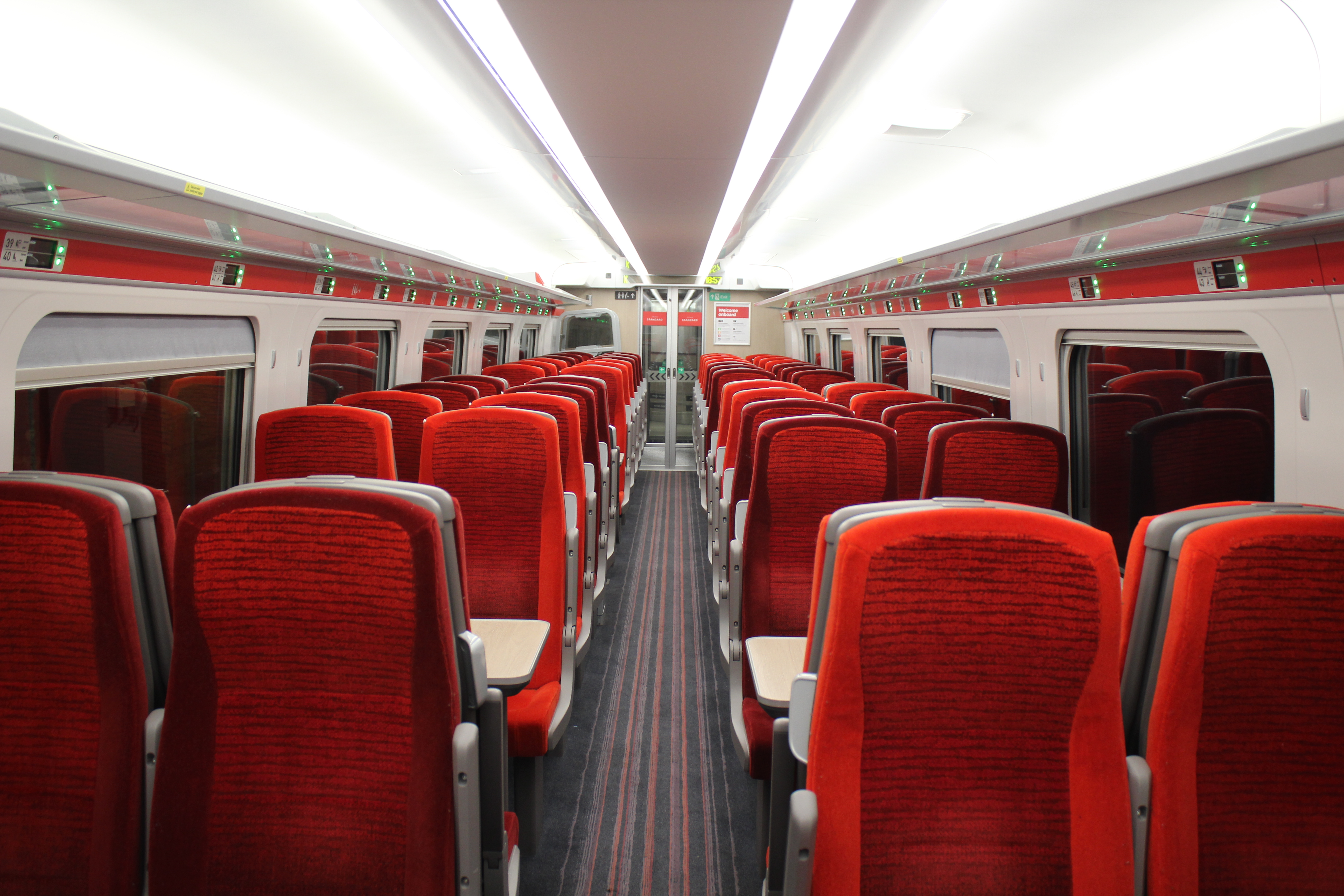 The standard class interior seen inside an LNER Class 801 'Azuma'. This is taken inside five-car unit 801104.